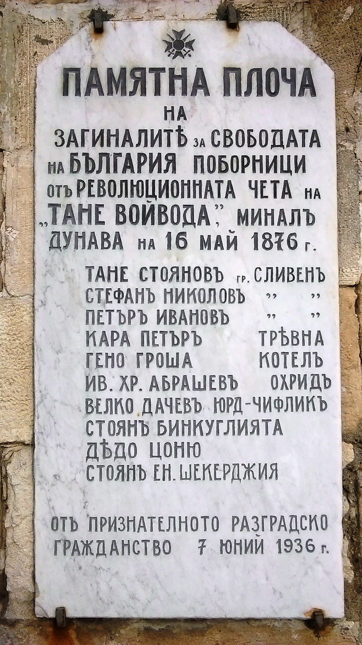 A memorial plate in front of Mausoleum-Ossuary of Russian soldiers in Razgrad